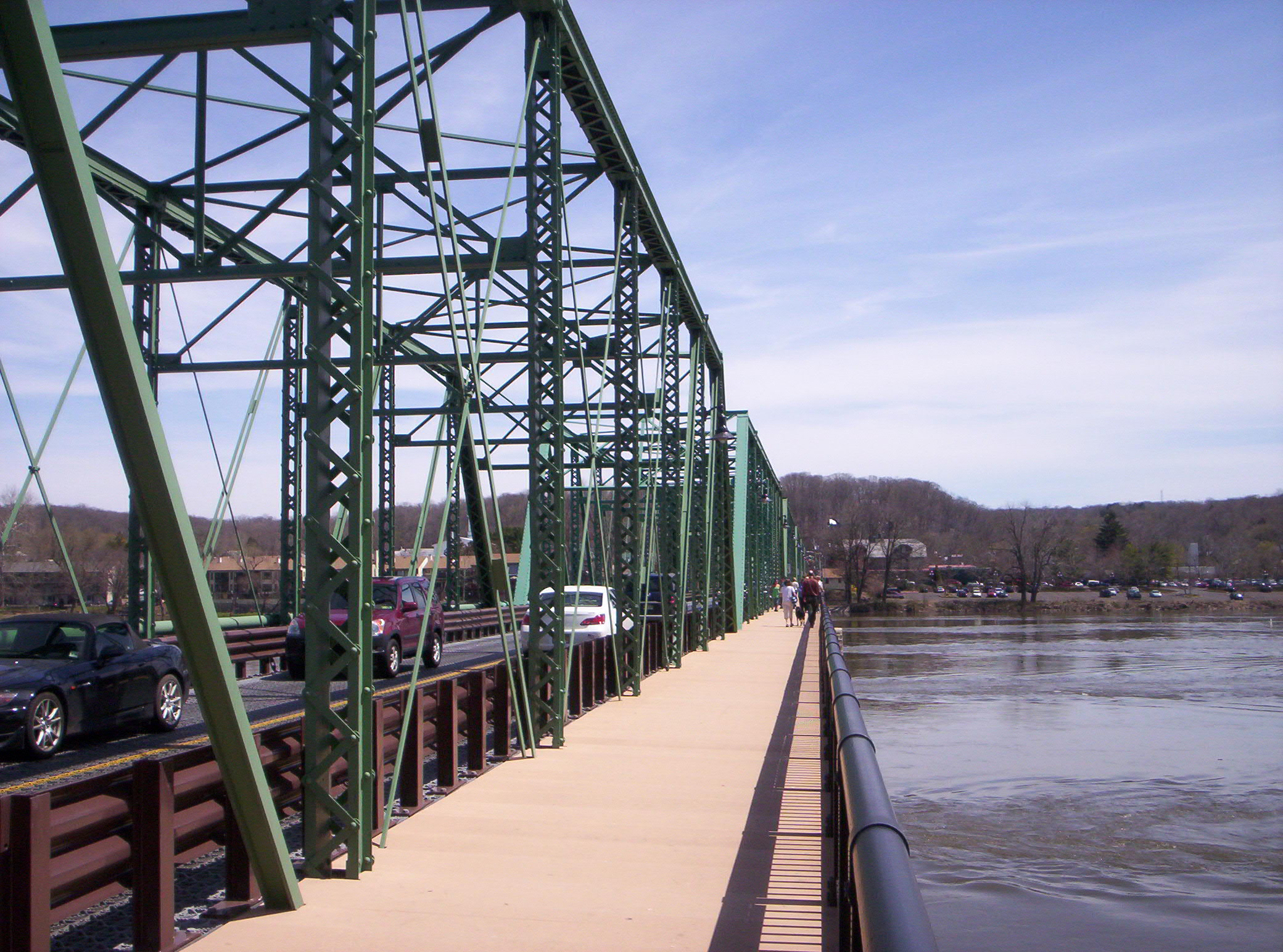 New Hope-Lambertville Bridge-view from walkway